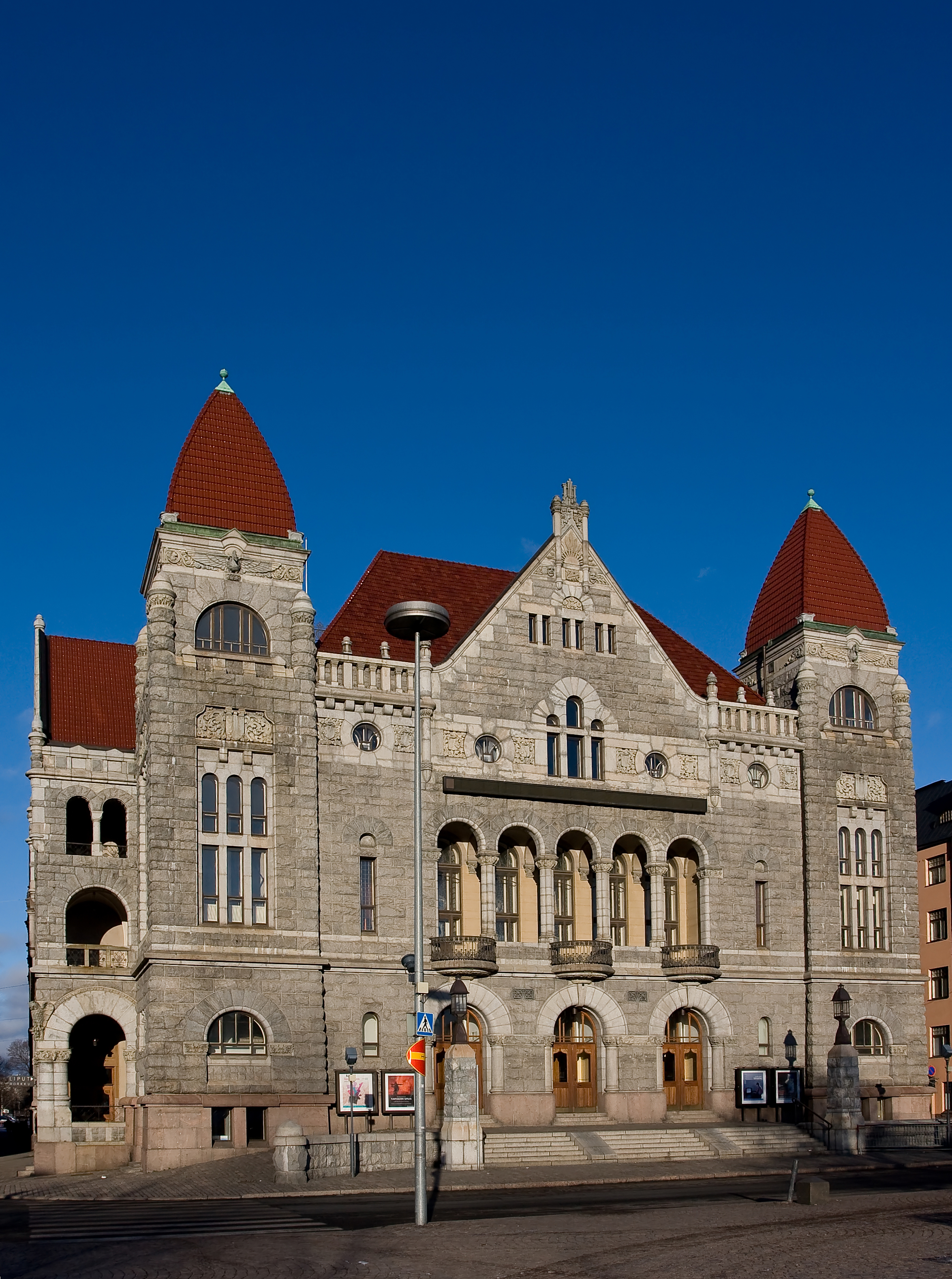 Finnish National Theatre, Helsinki, Finland. Built 1902. Designed by architect Onni Tarjanne, considered as an example of National Romantic style.